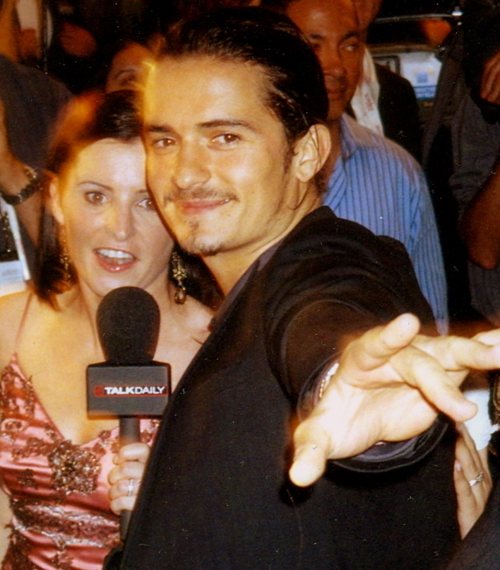 Orlando Bloom at the Toronto International Film Festival 2005 promoting Elizabethtown.